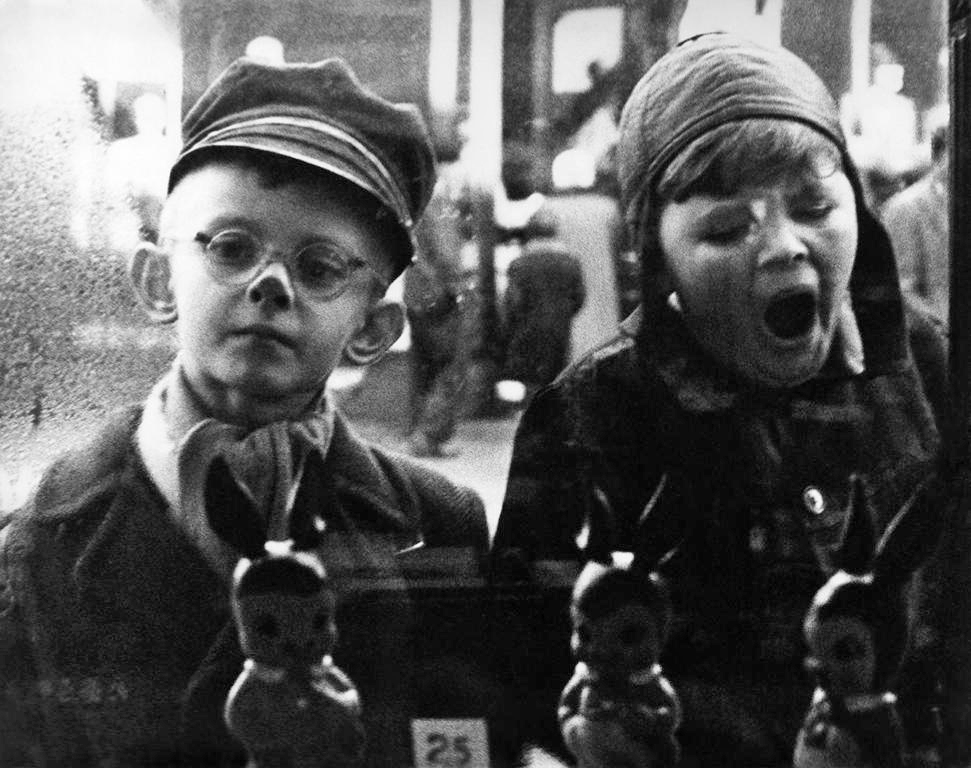 Zofia Rydet, "Little Man"